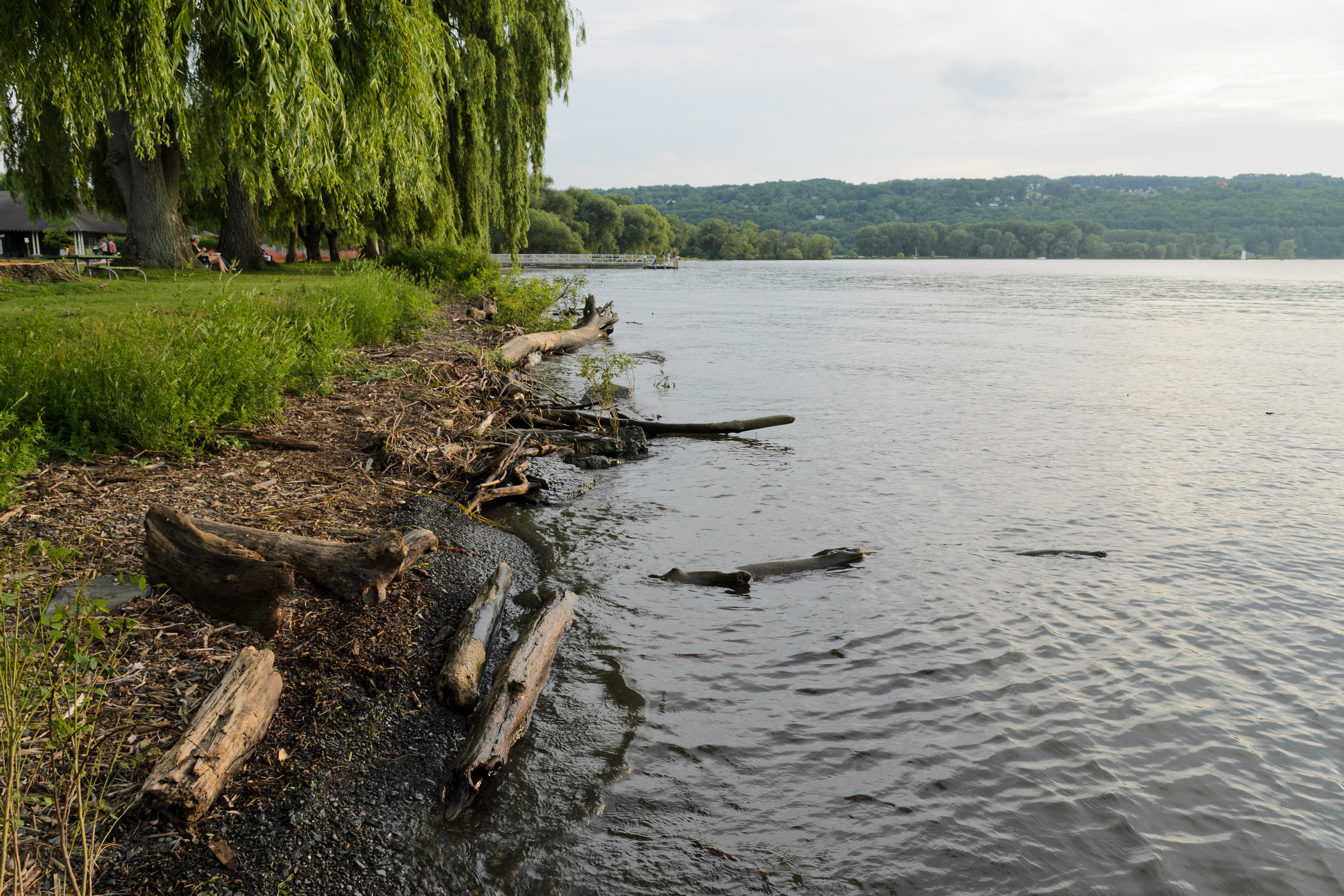 Stewart Park, Ithaca, New York.